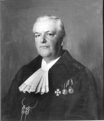 Portrait of German Catholic theologian Franz Xaver von Funk from the Professors Gallery at the University of Tübingen.